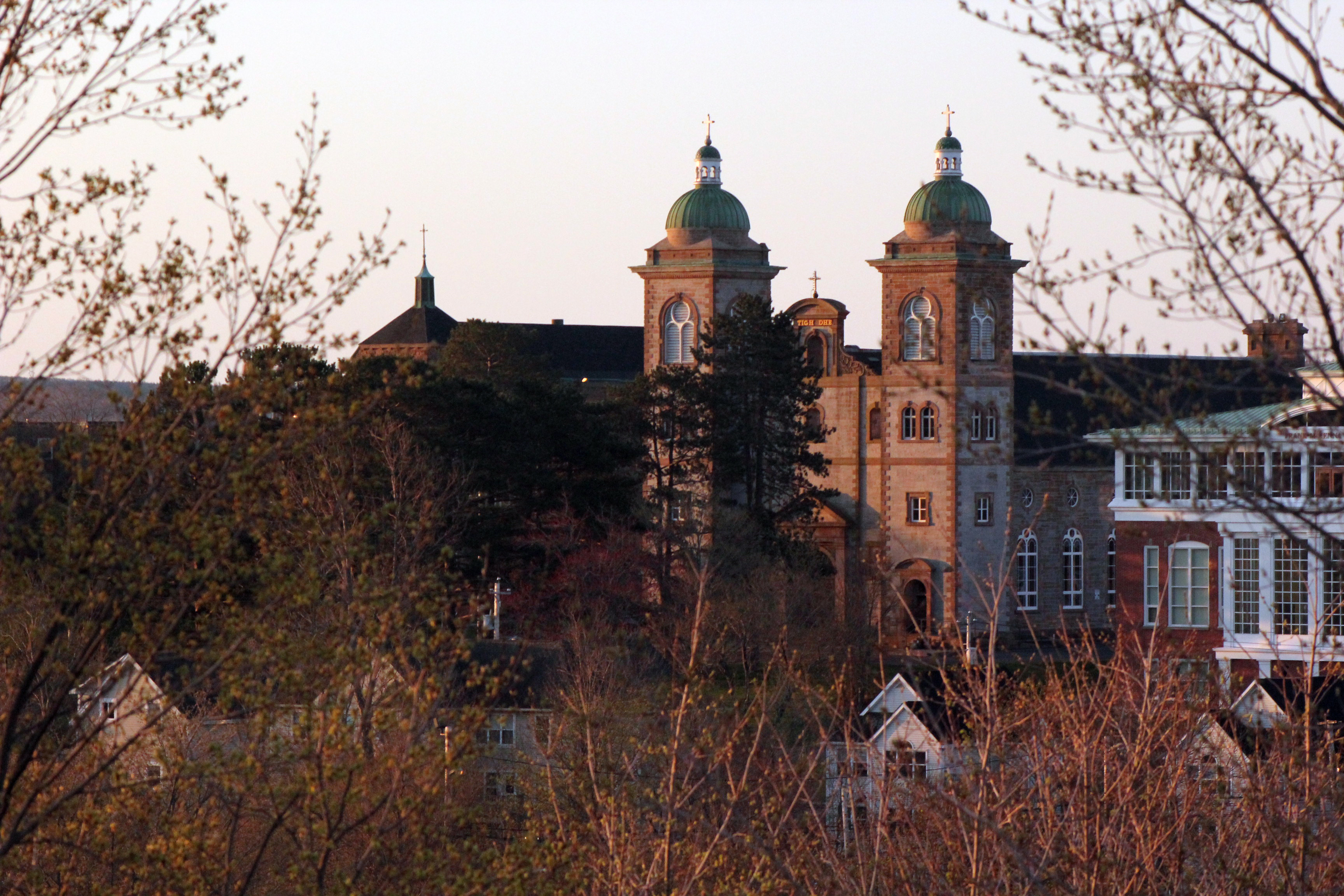 St. Ninian's Cathedral, Antigonish, Nova Scotia (built 1867-1886).